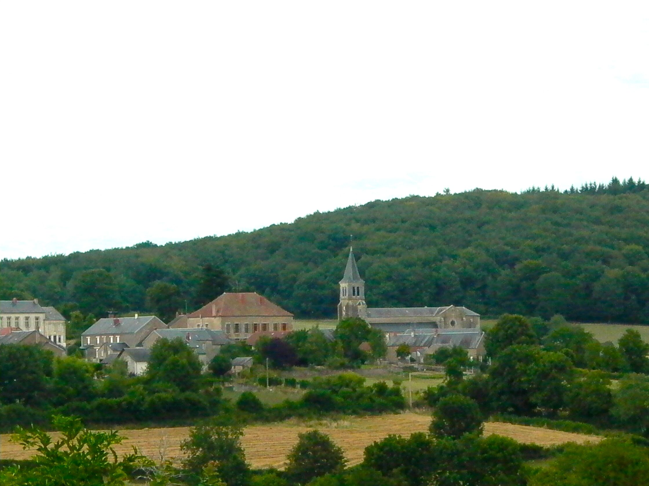 The village Mhere